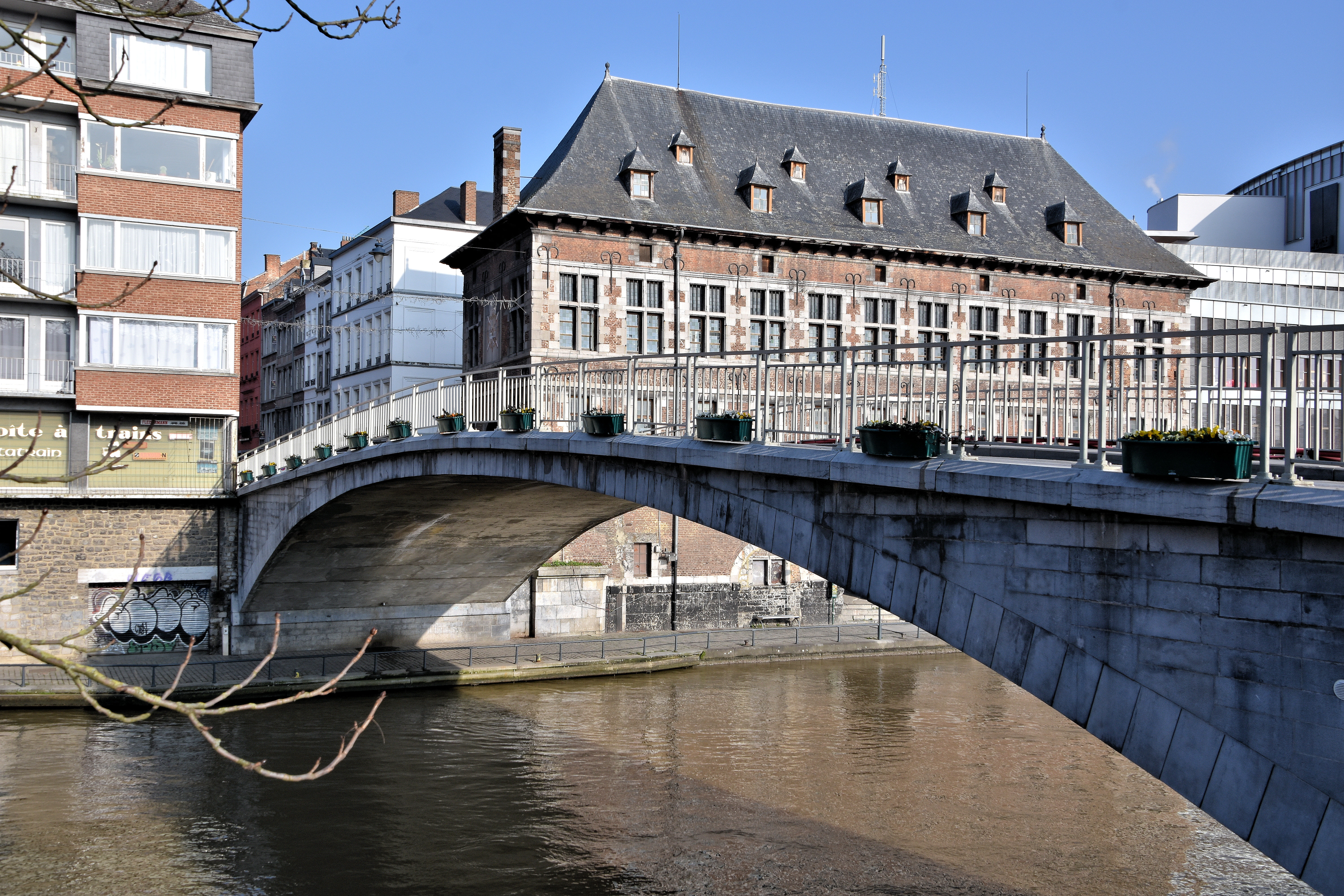 The historical meat hall of Namur also houses the Archaeological Museum.